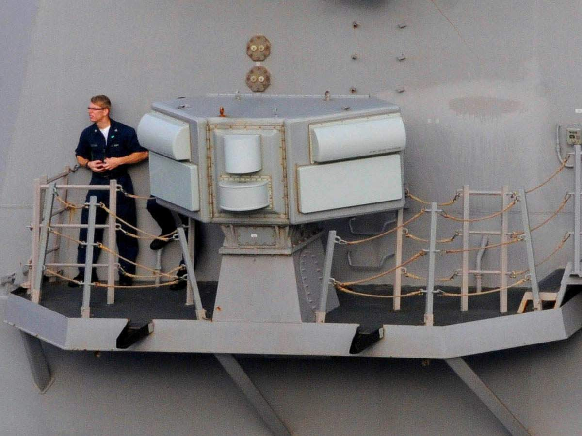 090906-N-3610L-421 GULF OF OMAN (Sept. 6, 2009) Sailors aboard the Arleigh Burke-class guided-missile destroyer USS Gridley (DDG 101) observe a fueling at sea with the aircraft carrier USS Ronald Reagan (CVN 76). Fueling at sea is used in routine and emergency situations to fuel ships in the strike group. The Ronald Reagan Carrier Strike Group is deployed to the U.S. 5th Fleet area of responsibility. (U.S. Navy photo by Mass Communication Specialist 3rd Class Torrey W. Lee/Released)